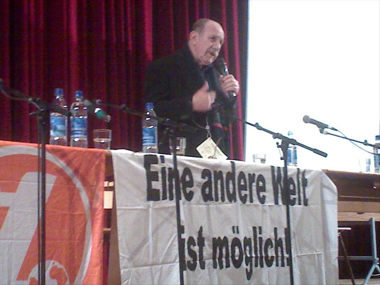 Paul Singer, Brazilian economist, at the Attac meeting in Gladbeck (2007)